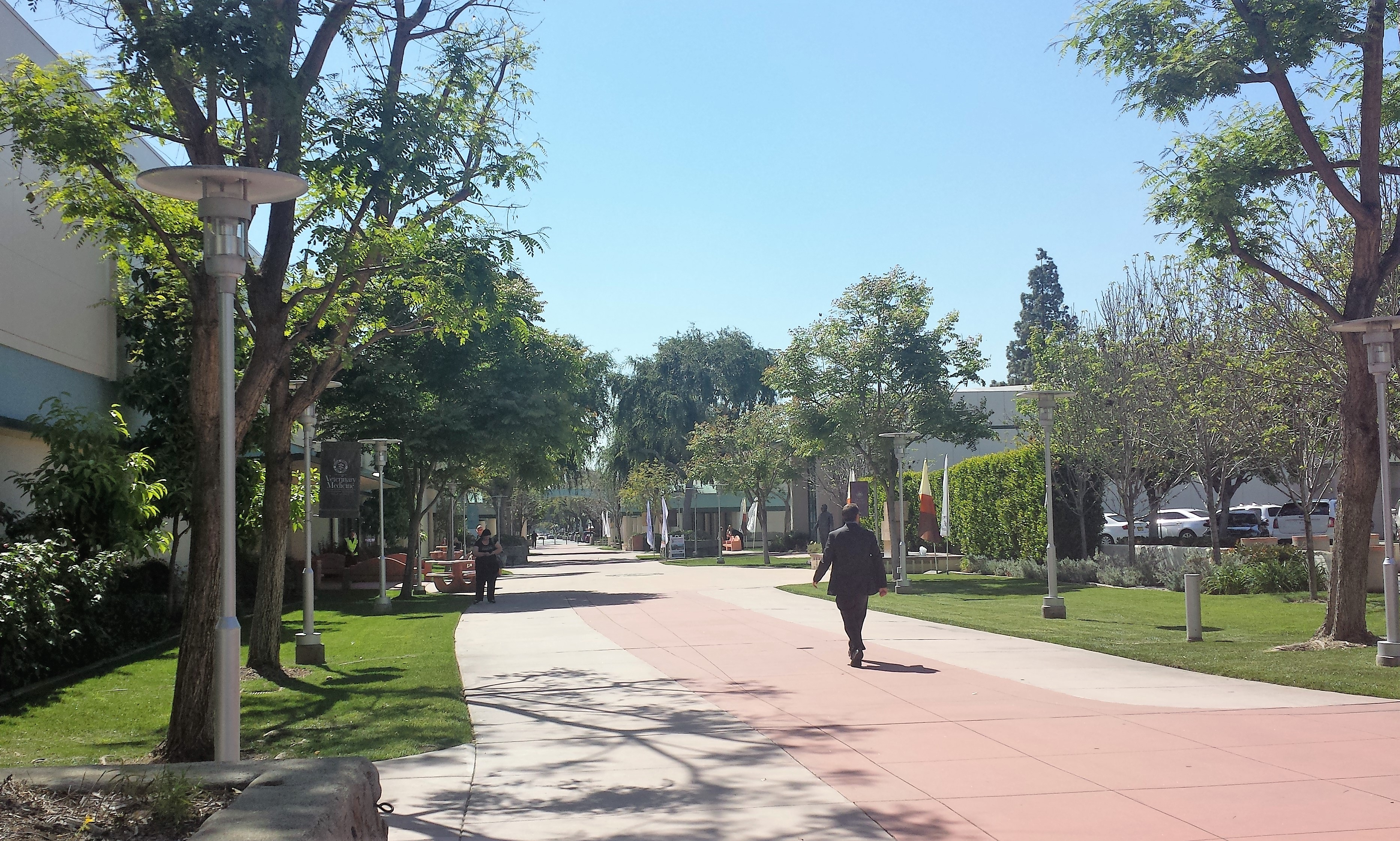 Campus of WesternU, located in Pomona, California.